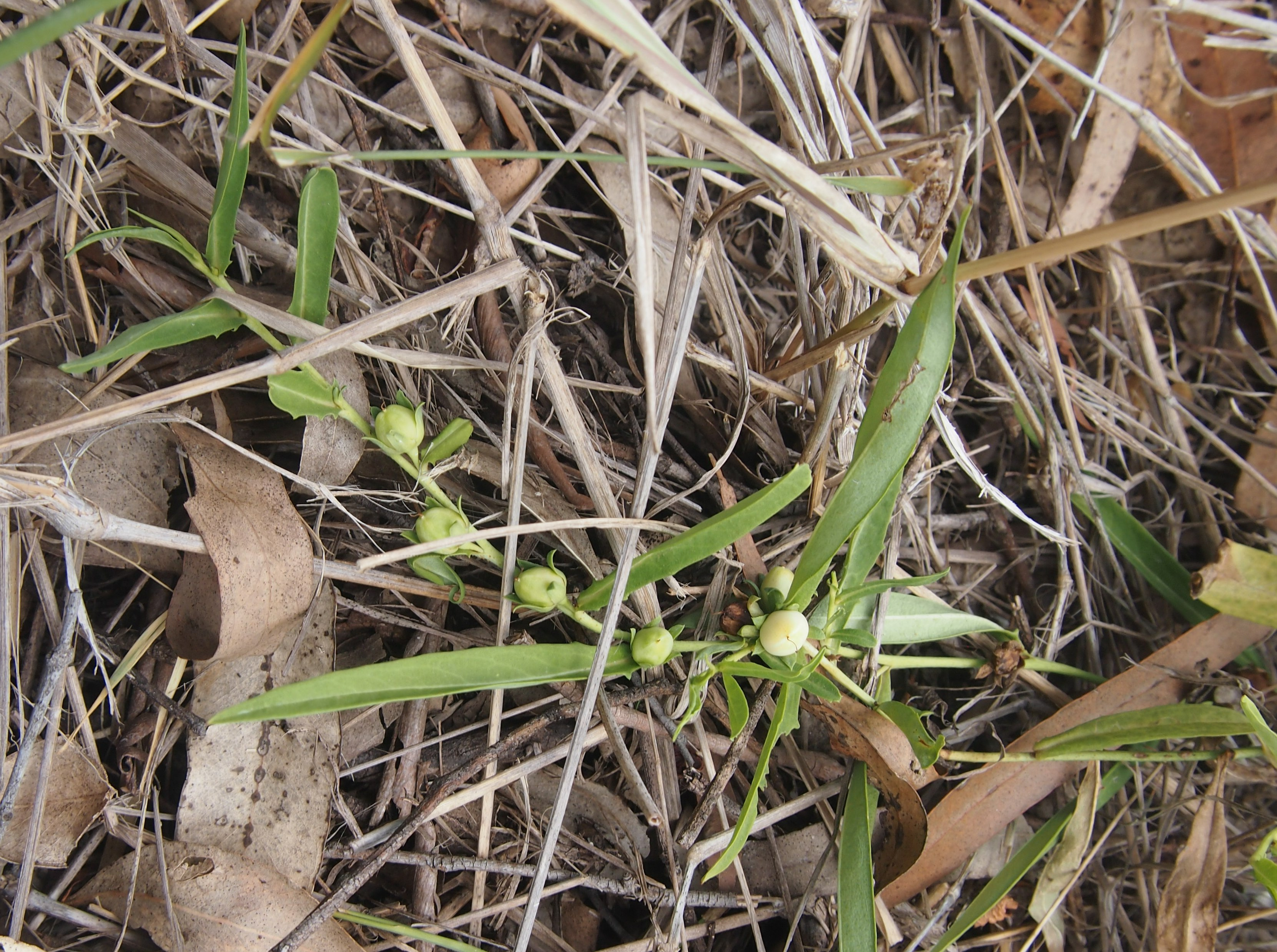 Eremophila debilis fruit